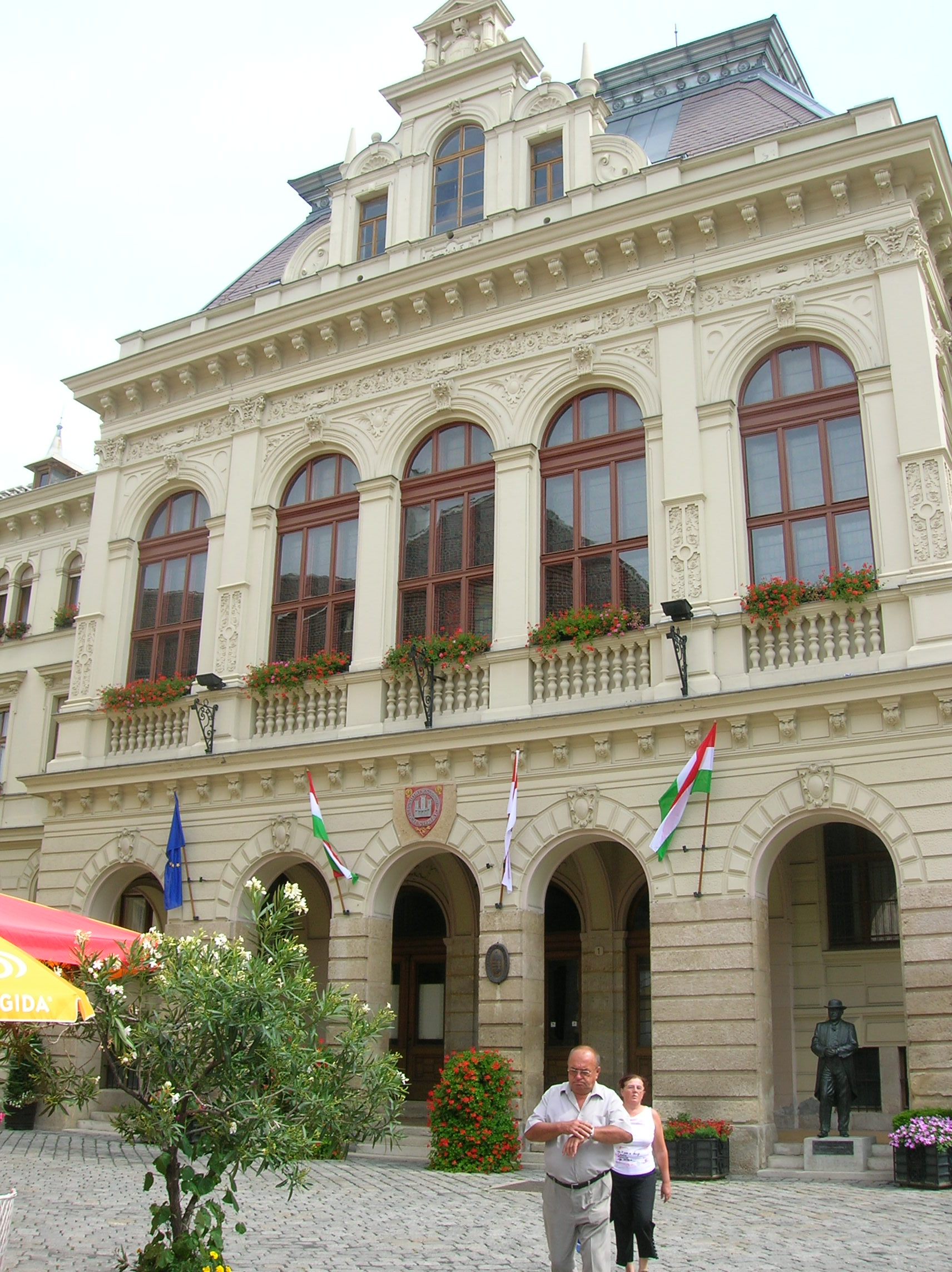 City hall of Sopron, Hungary